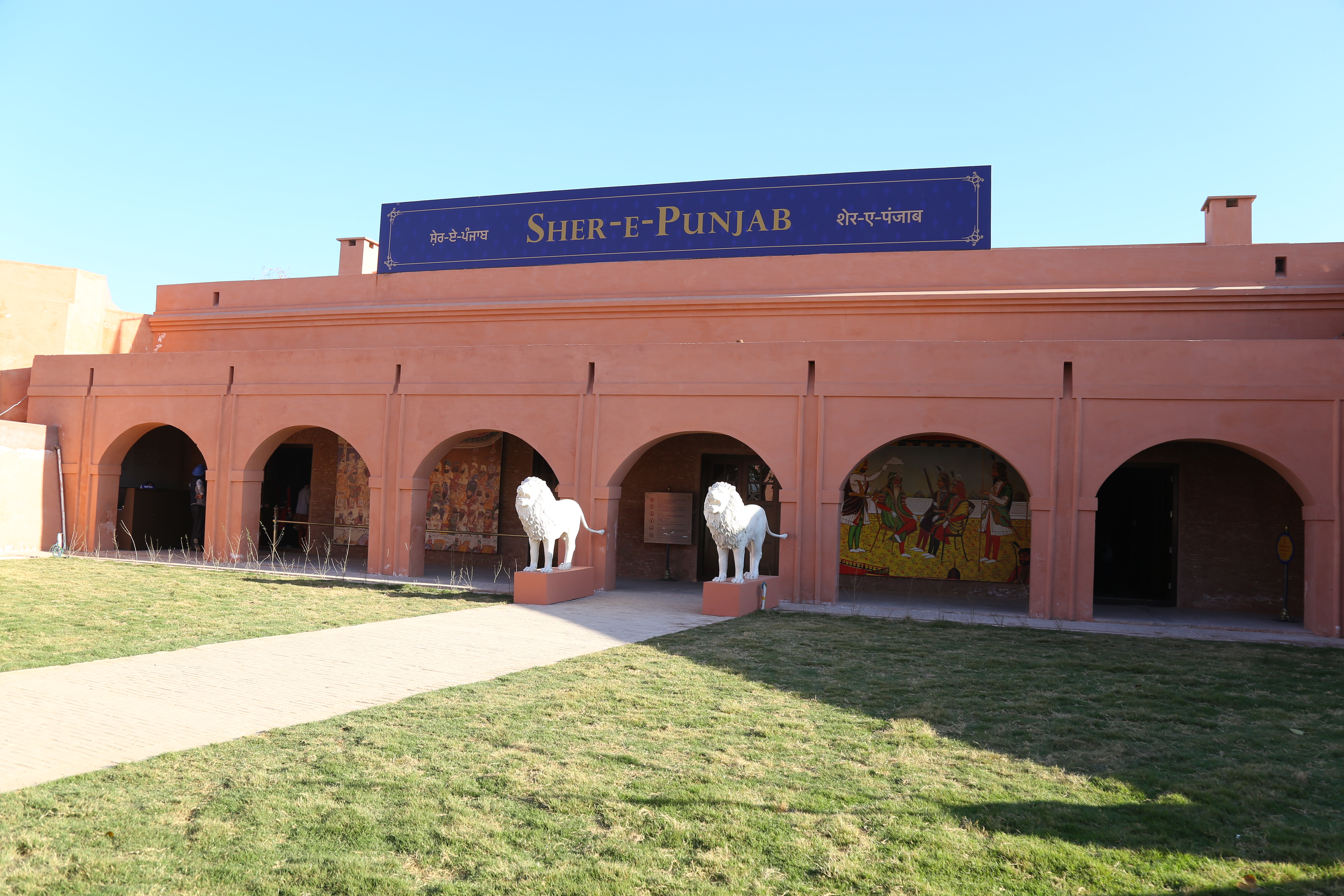 A glorious history from the past depicted through the means of technology, to entice, enlighten, educate, enthrall and inspire. A 7D show based on the life of Maharaja Ranjit Singh that transports you back to the 19thcentury in an immersive way leaving you enchanted and is aptly called Sher e Punjab.